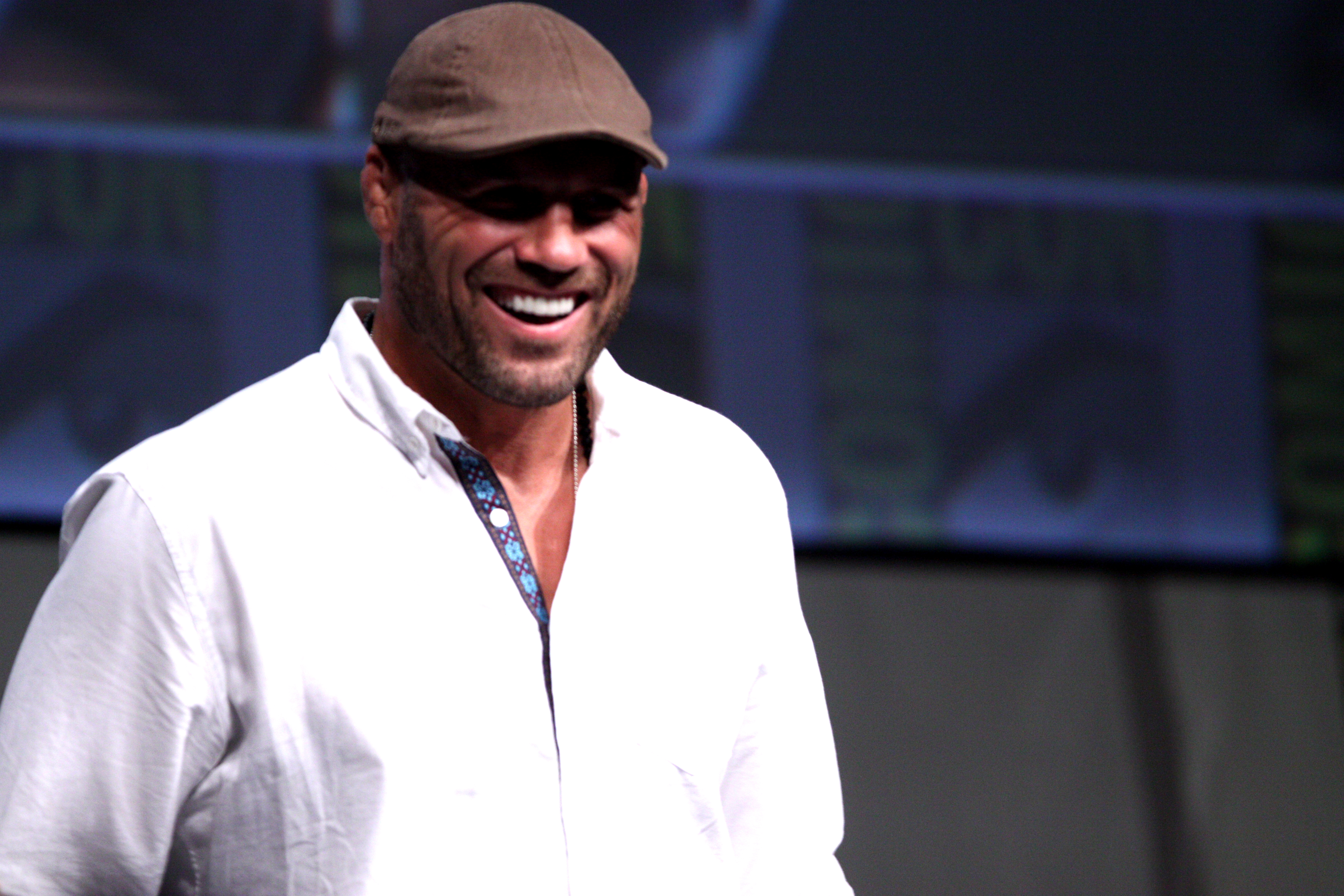 Randy Couture speaking at the 2012 San Diego Comic-Con International in San Diego, California.